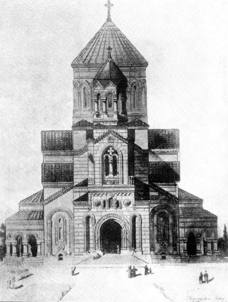 Saint Thaddeus and Bartholomew armenian temple in Baku (Budagovsky) / 1910